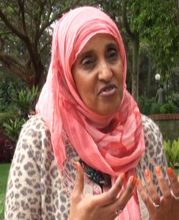 Somali activist Hanan Ibrahim addressing the International Security Sector Advisory Team (ISSAT).